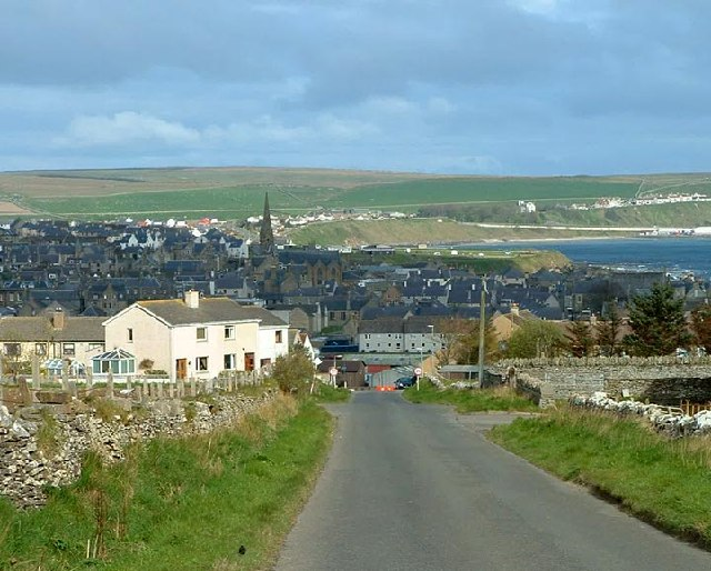 Thurso from the hill at Mountpleasant. Looking down Mountpleasant into Thurso. Thurso bay with Scrabster in on the right of this picture.